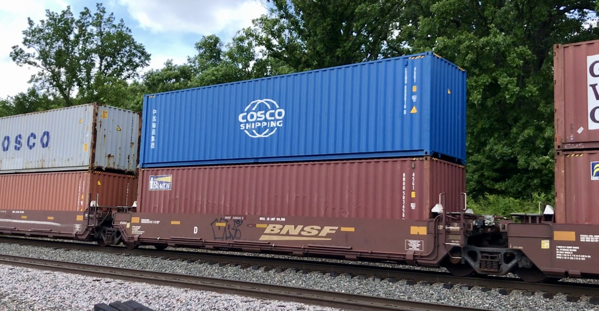 Cosco Shipping container being transported on a double-stack intermodal freight train in the United States.